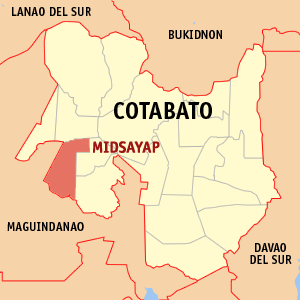 Map of the Cotabato showing the location of Midsayap